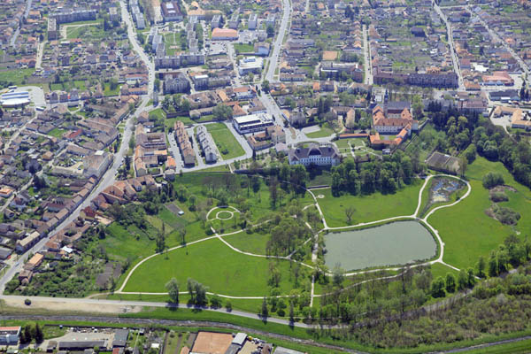 Szécsény, Hungary, aerial photography